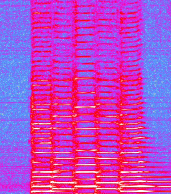 A spectrogram of a one octave D arpeggio on the cello.